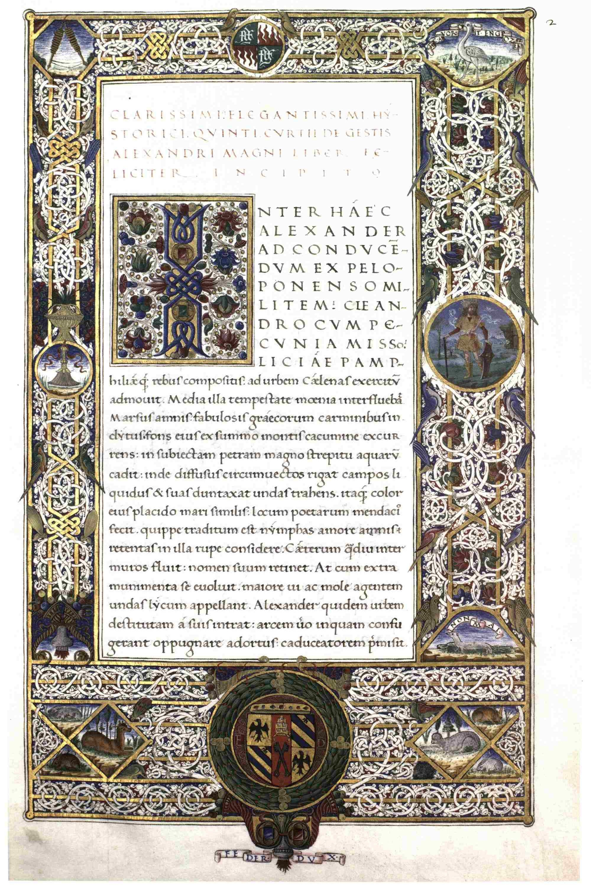 The beginning of the third book of the „Histories of Alexander the Great“ in the manuscript Vatican City, Biblioteca Apostolica Vaticana, Urb. lat. 427, fol. 2r.